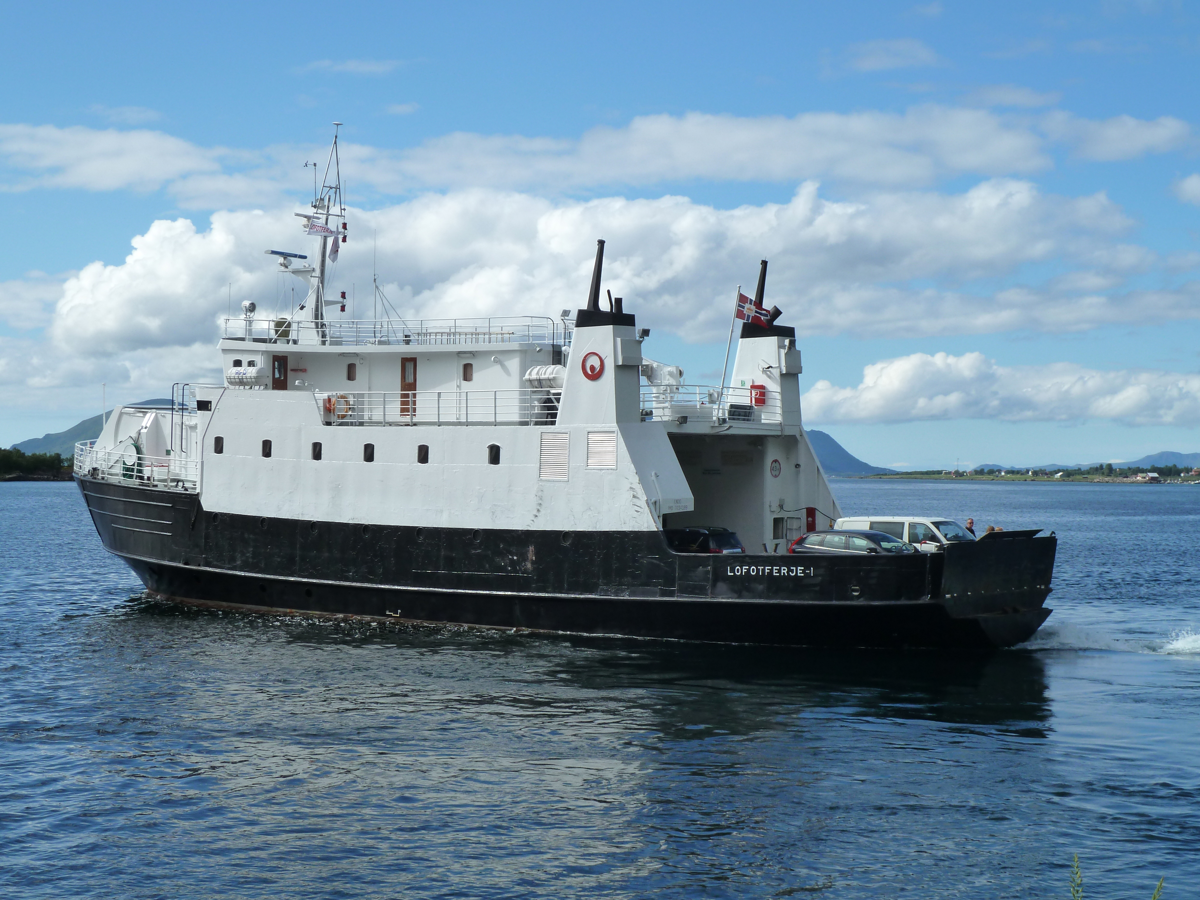 MF Lofotferje 1 leaving Kaljord, heading for Lonkan and Hanøy, in Hadsel.